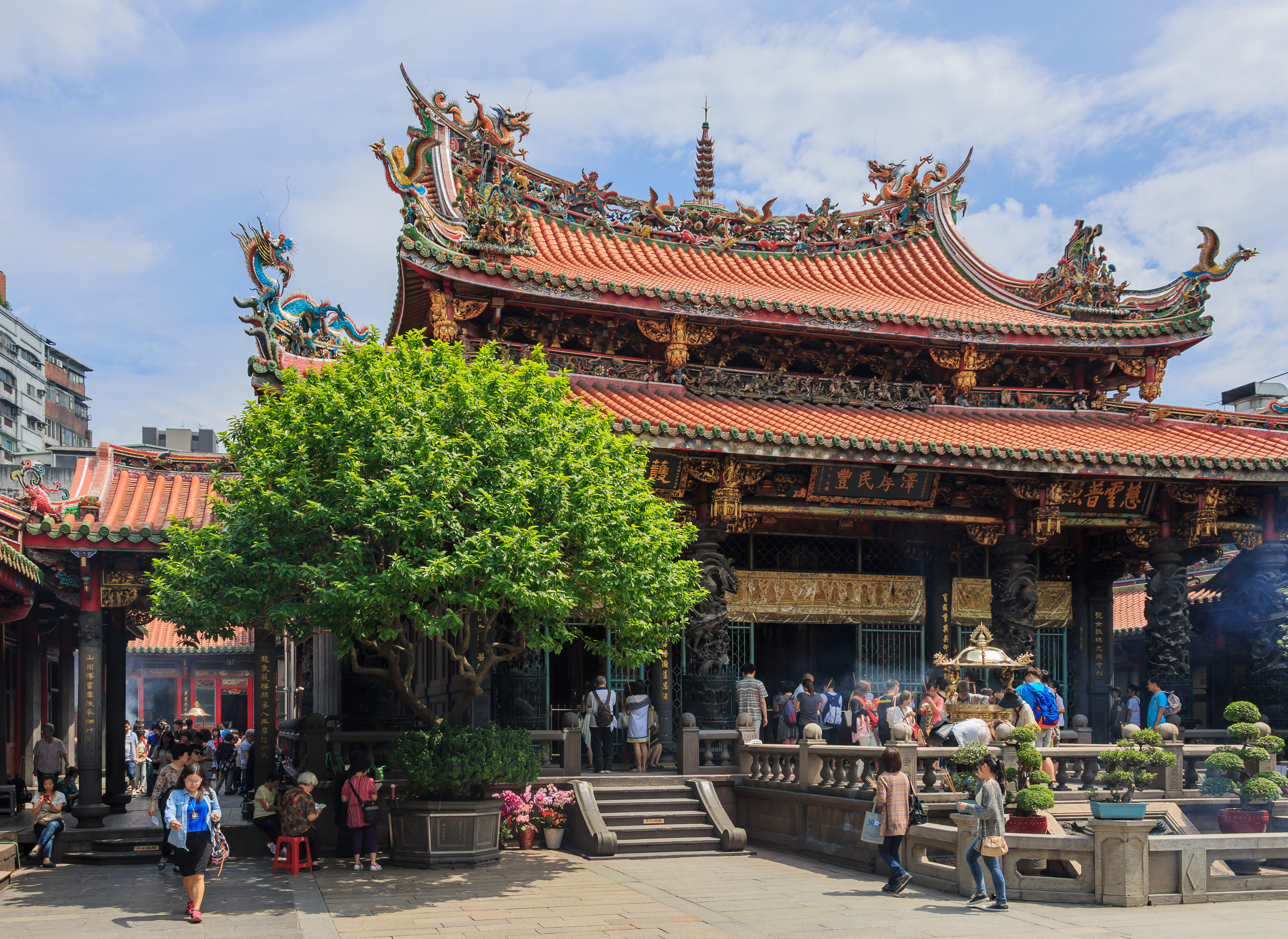 Taipei, Taiwan: Inside Mengjia Longshan Temple